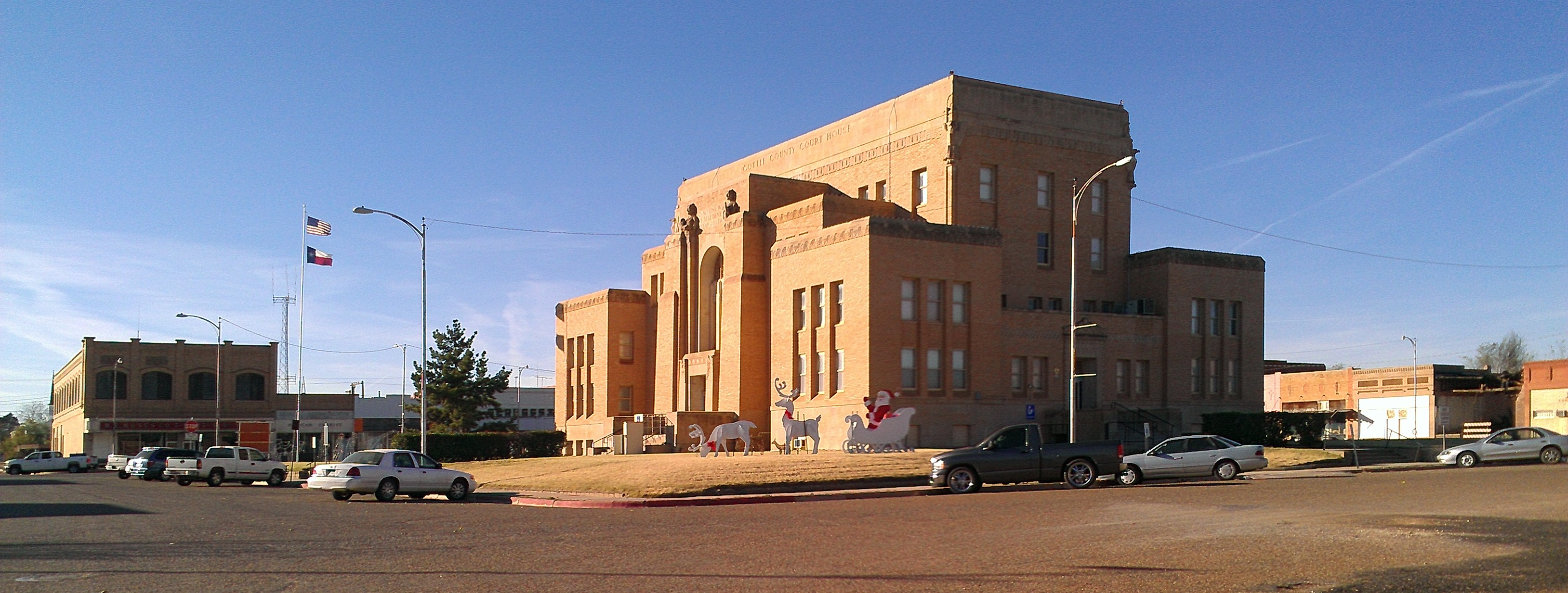 Cottle County Courthouse